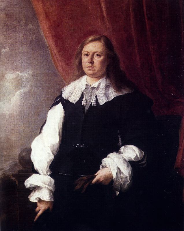 Portrait of Joshua van Belle, merchant in Spain, mayor of Rotterdam. 125 x 102 cm. Dublin. National Gallery.